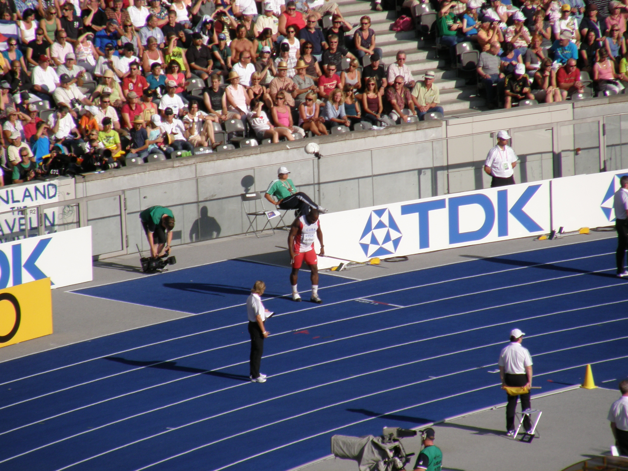 Guillermo Martínez - World Championships in Athletics Berlin 2009